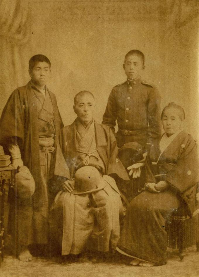 Goro Fujita a.k.a. Hajime Saito and his family: his second son Tsuyoshi, his eldest son Tsutomu, and his wife Tokiwo. This image was taken on November 14, 1897 and was published by his descendants on July 15, 2016.